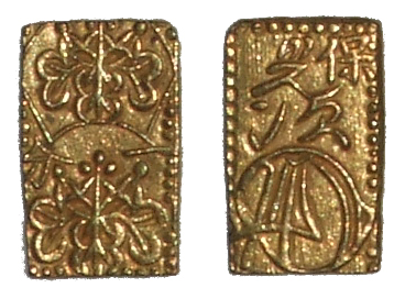 Hozi-1buban(gold)